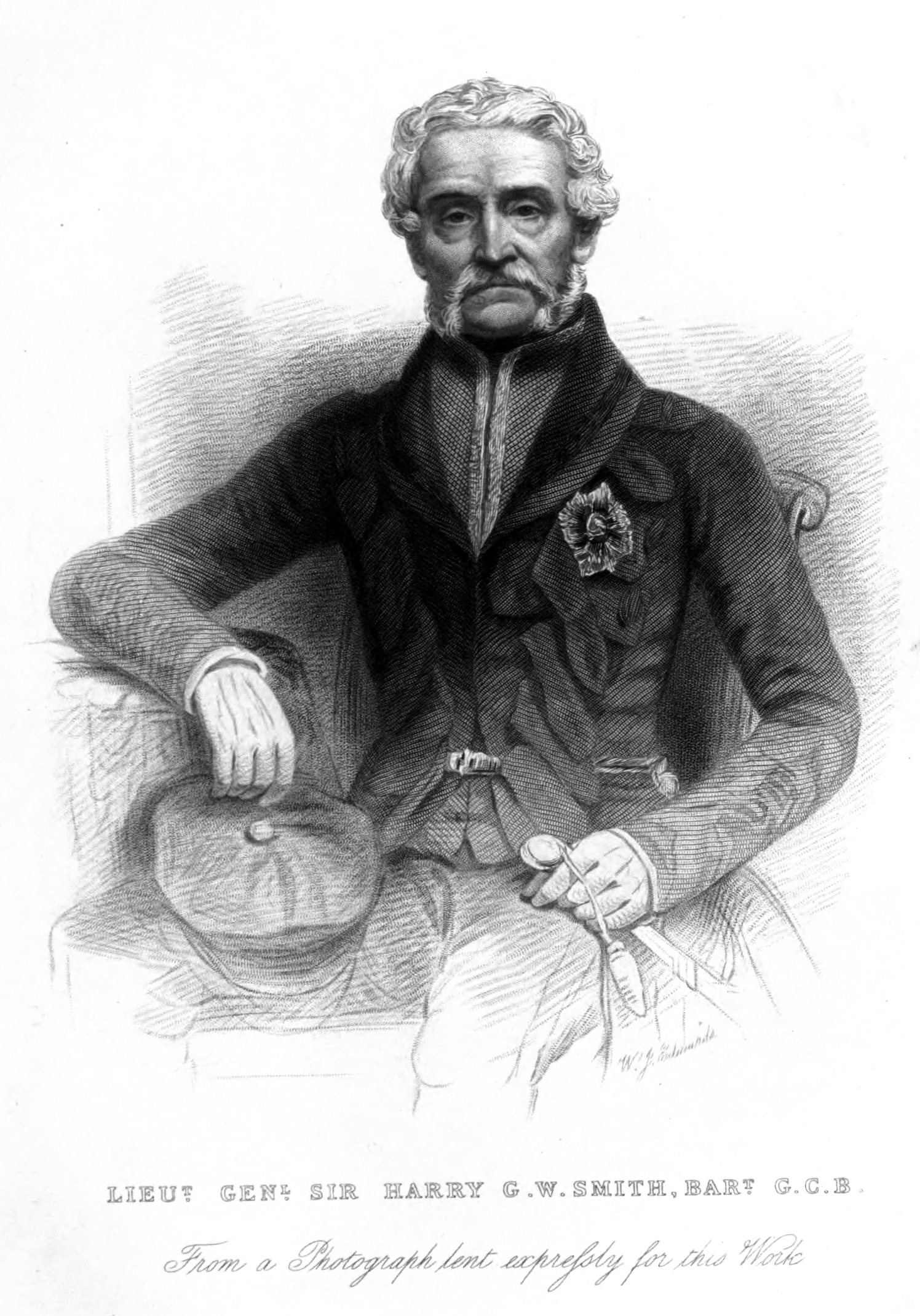 Sir Henry George Wakelyn Smith, 1st Baronet of Aliwal GCB (28 June 1787 – 12 October 1860)